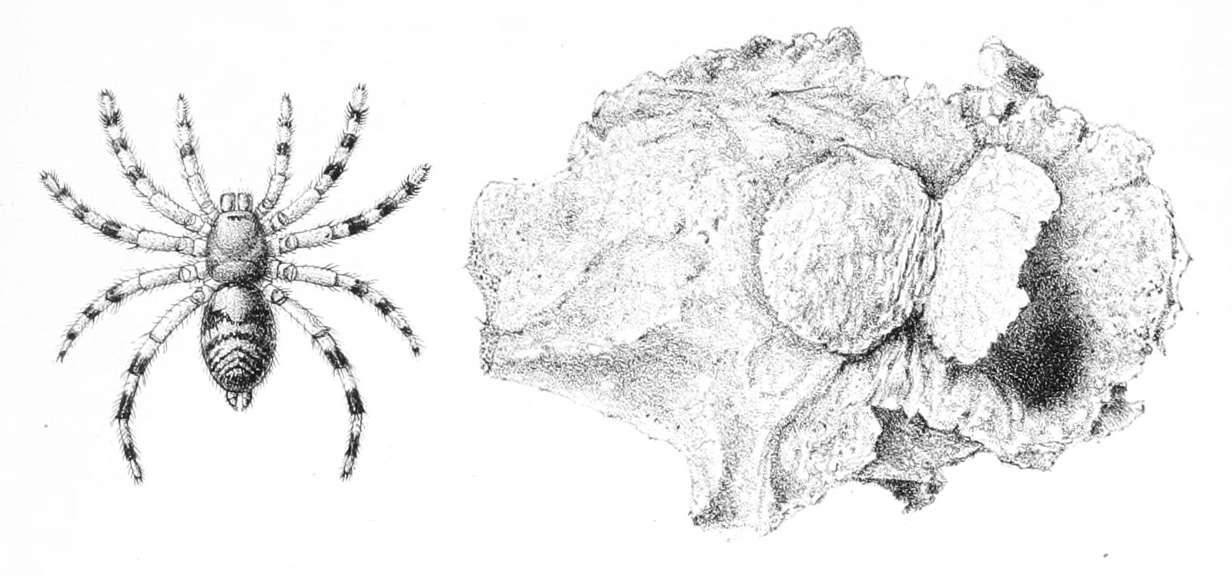 Oecophlaeus cinctipes Pocock, 1892 = Sason robustum (O. P.-Cambridge, 1883) - Adult and its nest